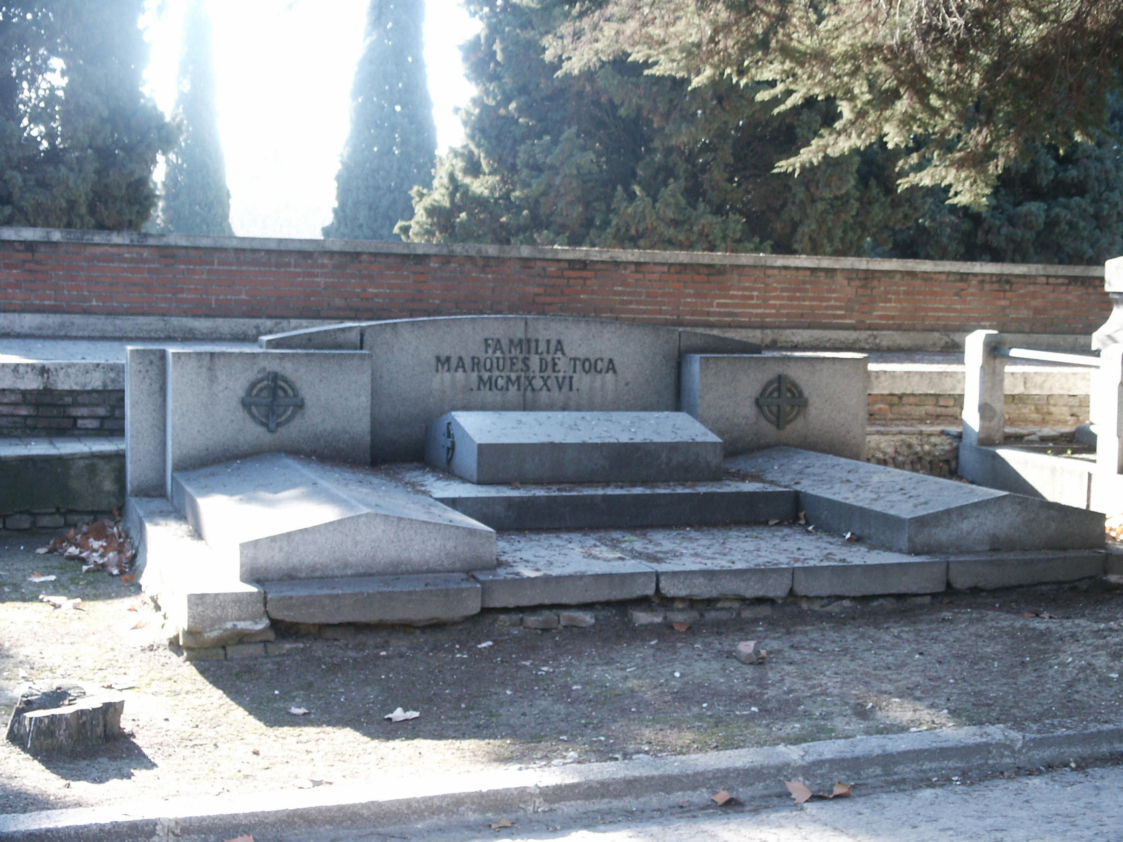 Mausoleum of the Marquises of Toca in the Cementery of La Almudena, Madrid